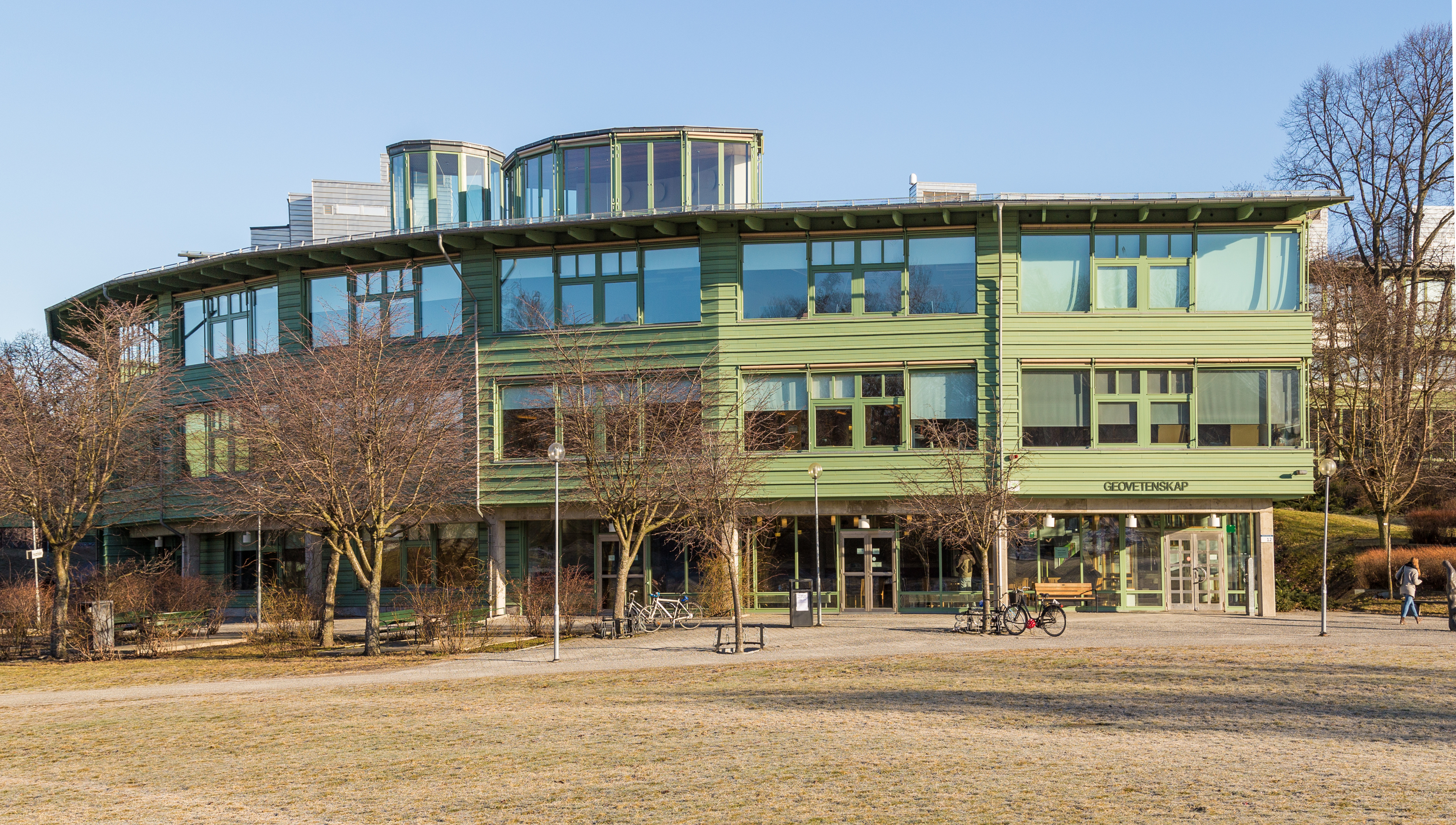 House of Geosciences, Stockholm University, Sweden. Building U, mainly mainly auditoriums and class rooms for natural geography, including quaternary geology.